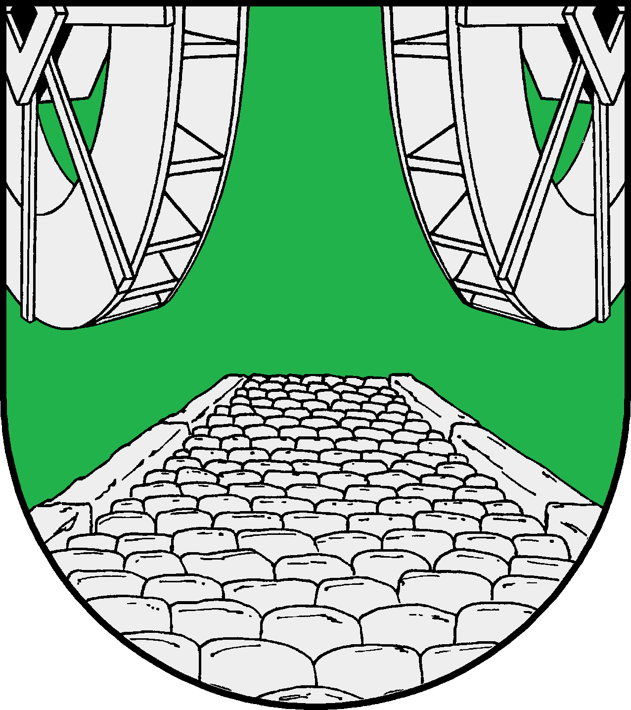 Coat of arms of the municipality Rümpel in Schleswig-Holstein, Germany.